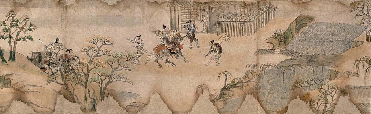 The Legendary Origins of Kokawadera (紙本著色粉河寺縁起, shihon chakushoku Kokawadera engi). Handscroll (Emakimono), 30.8 cm、x 1984.2 cm. Color on paper. Located at Kokawadera (粉河寺), Kinokawa, Wakayama.